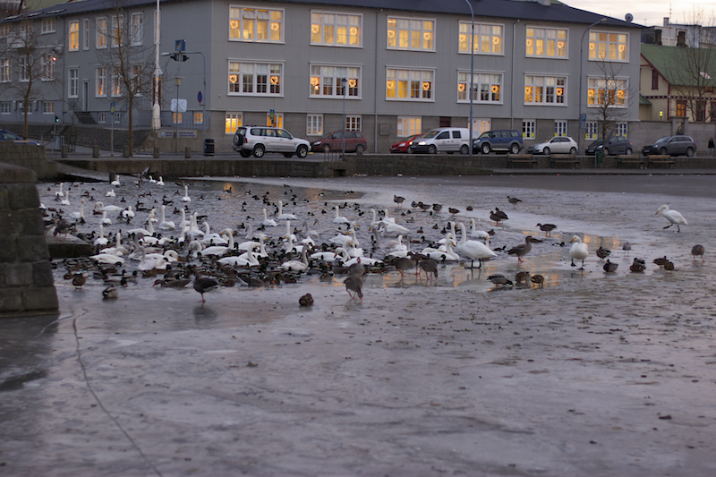 Picture of the Tjörnin Pond in Reykjavik, Iceland, in Winter.